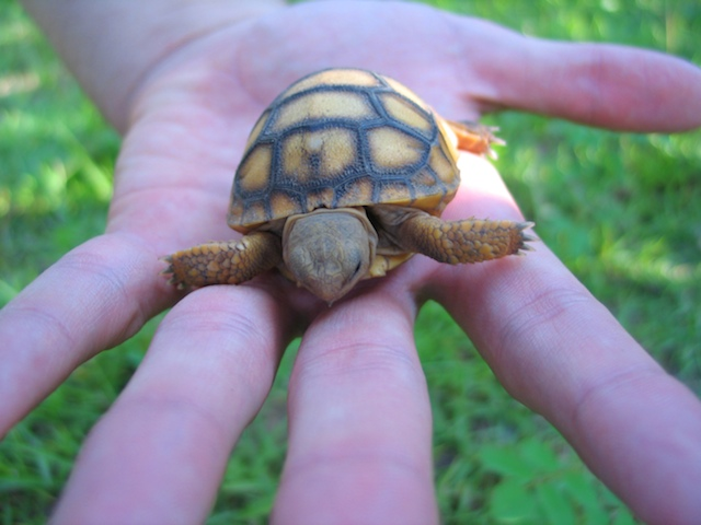 This is a cute photo of a Baby Gopher Tortoise.